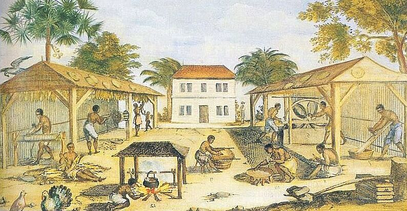 copy of 1670 painting from Virginia